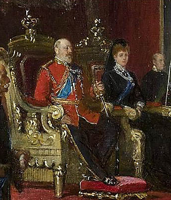 Crop of the Throne, The Reception of the Moorish Ambassador by Edward VII at St James's Palace